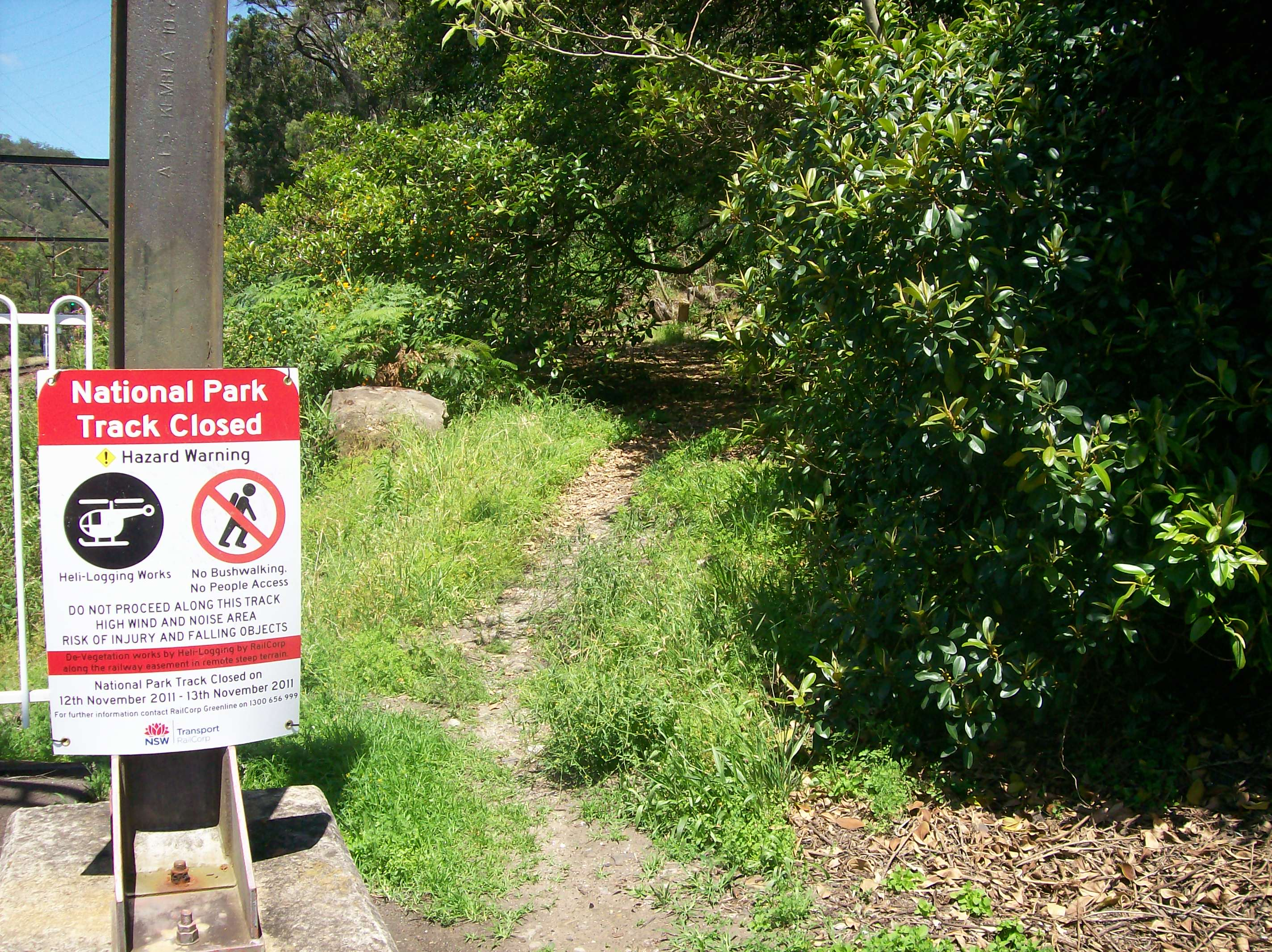 Wonabyne railway station walking track